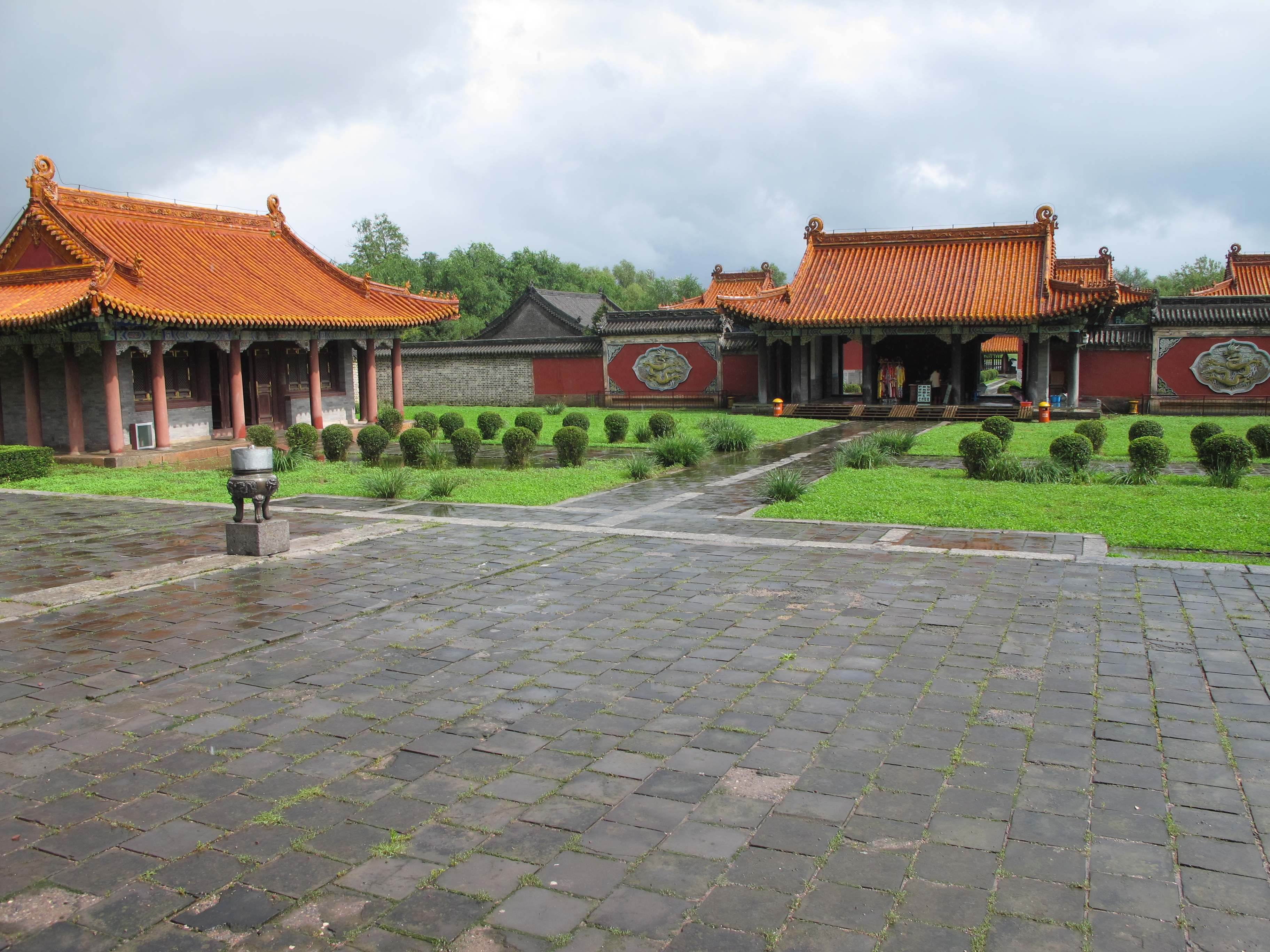 Yongling Tomb of Qing Dynasty